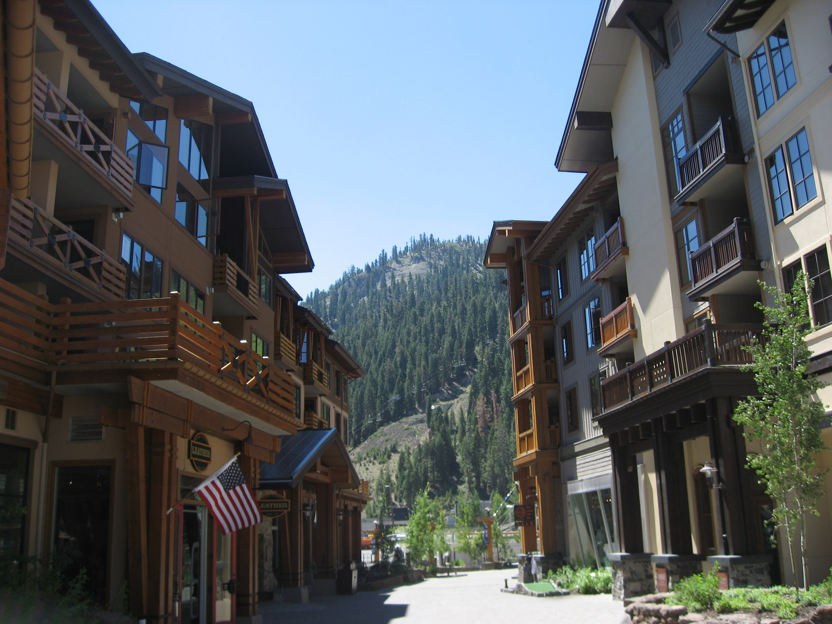 The Village at Squaw Valley resort with mountain in background.